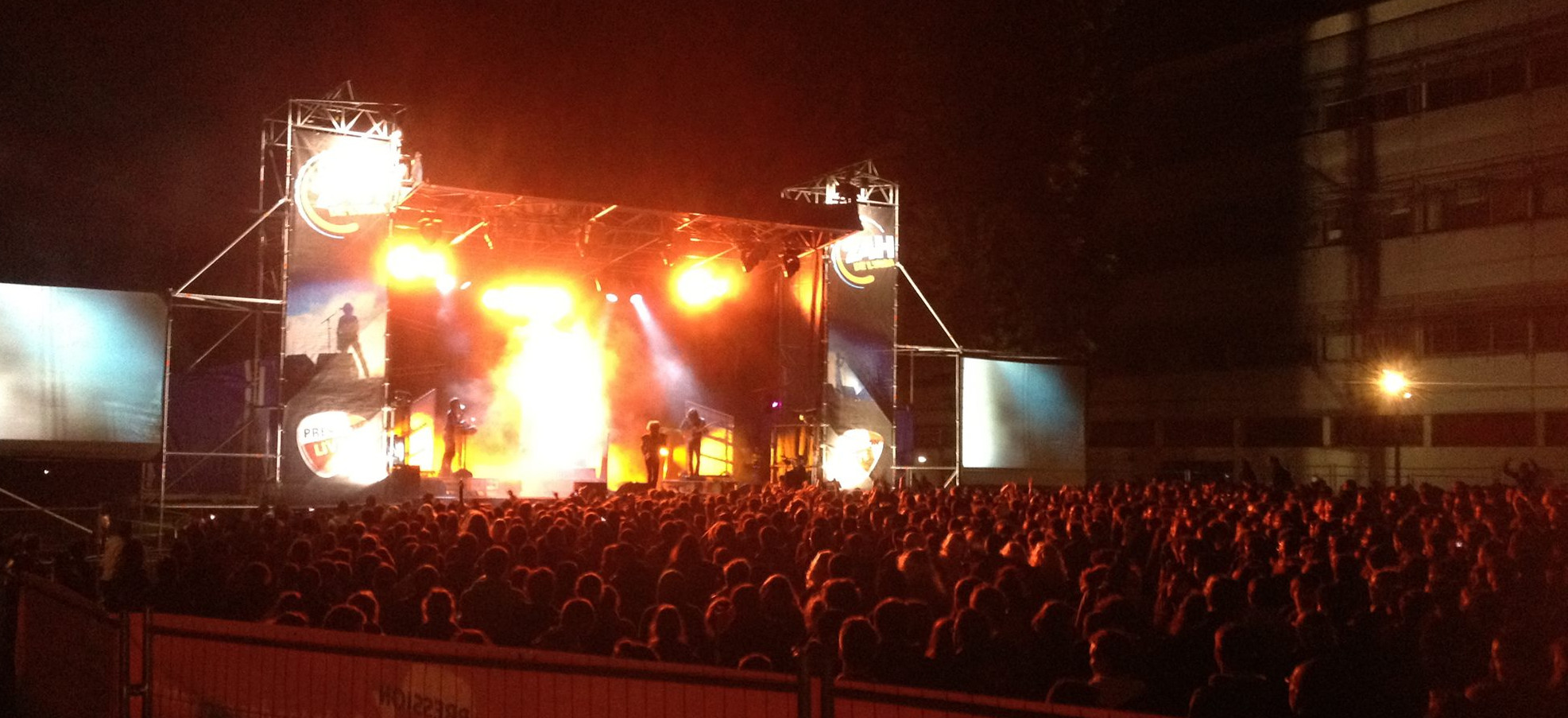 Grande Scène 24 Heures de l'INSA - 38ème édition